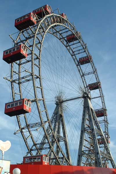 Austria, Vienna, Prater, Wiener Riesenrad